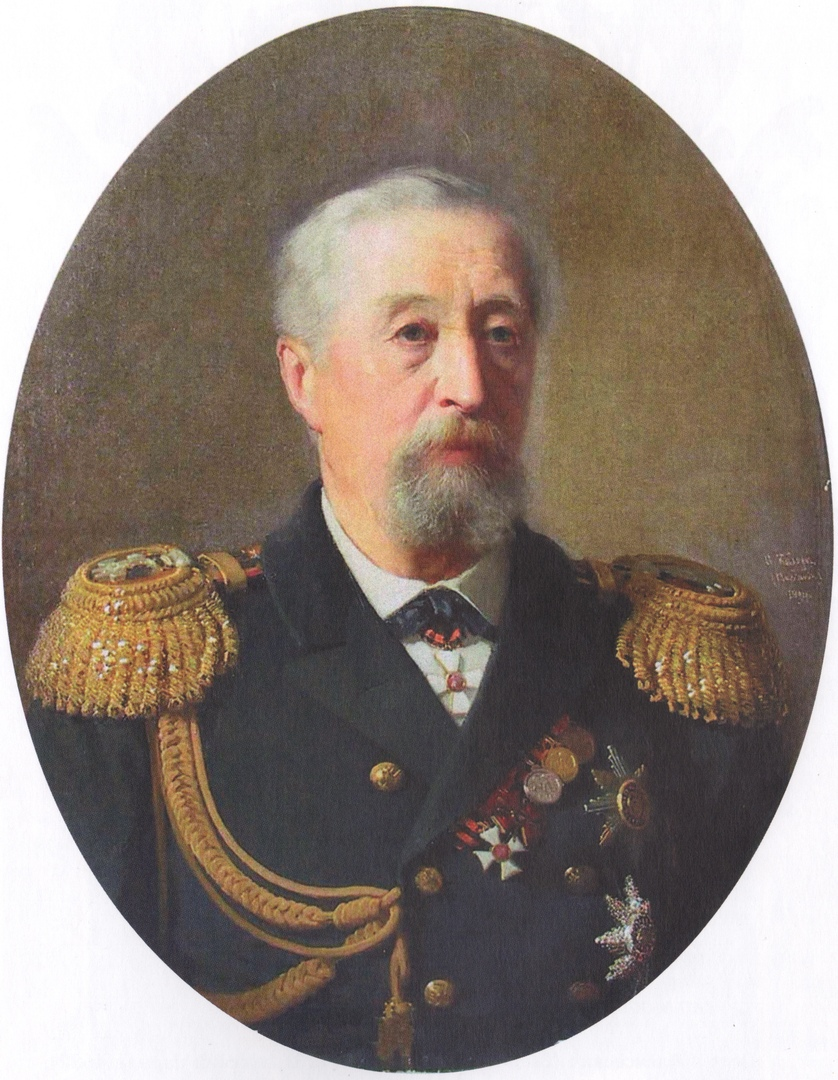 Pereleshin Pavel Alexandrovich